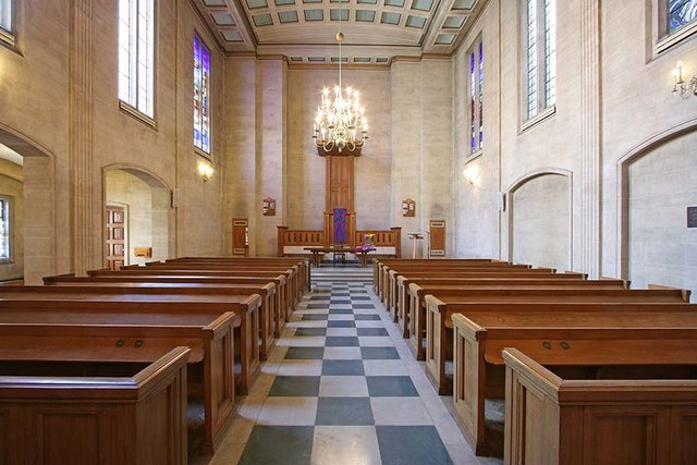 The Dutch Church, Austin Friars, London EC2 - East end